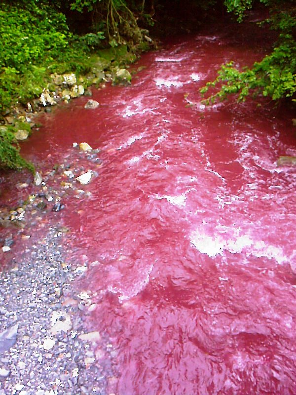 View of discolored water in a stream, probably due to illicit industrial spills.